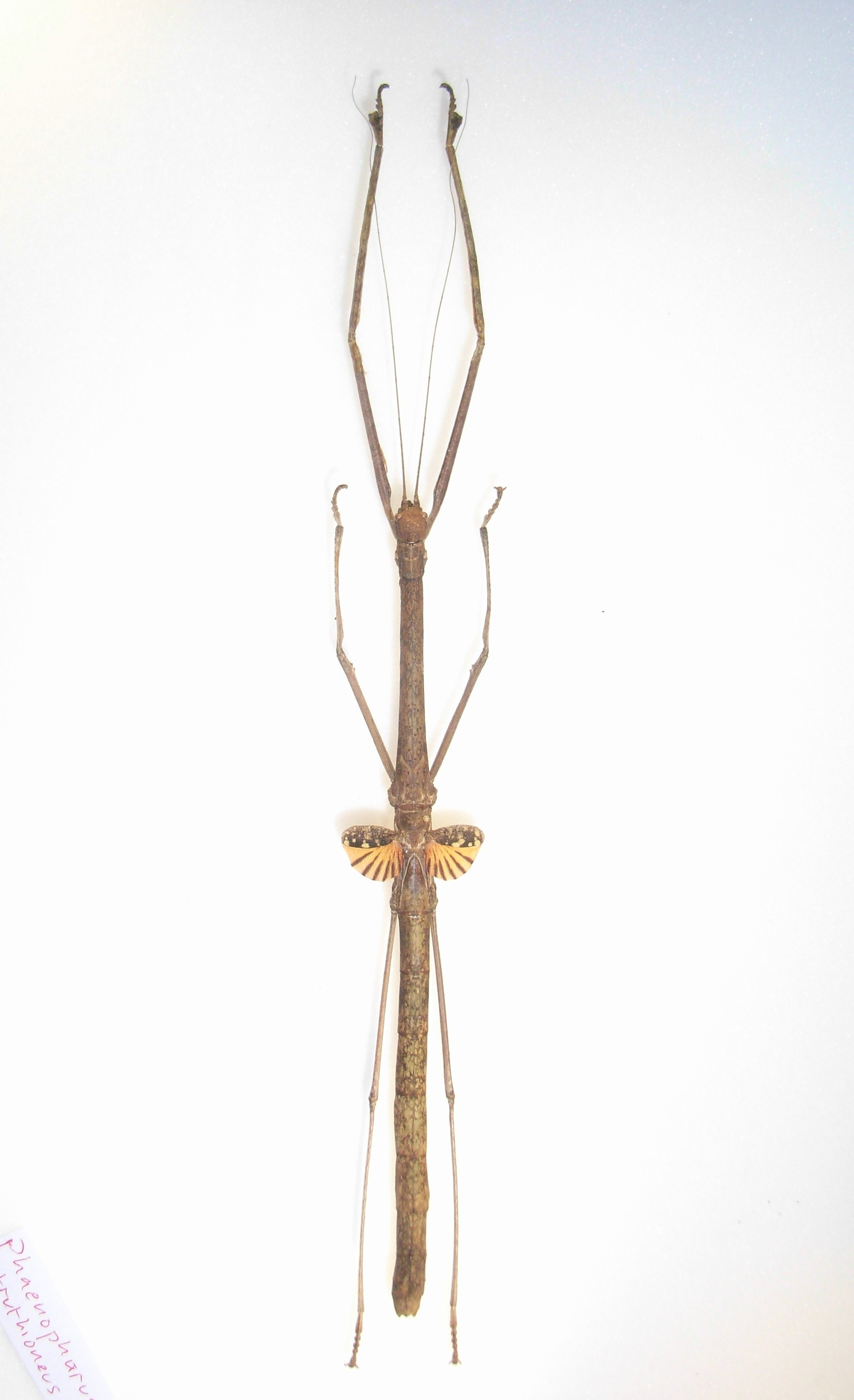 Phaenopharos struthioneus Malaysia Phasmidae Ex coll. Felix Stumpe